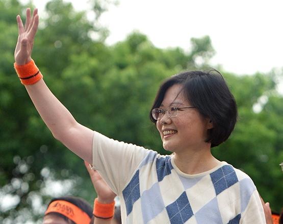 Tsai Ing-wen